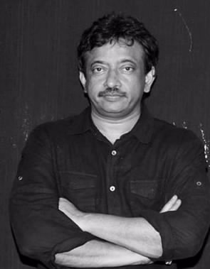 Ram Gopal Varma at press meet of 'Bhoot Returns'